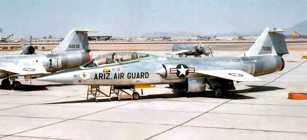 197th Fighter-Interceptor Squadron - Lockheed F-104B-5-LO Starfighter 57-1301 Aircraft was retired to MASDC Dec 4, 1967. Returned to service with AFTC, Edwards AFB. Was at Florence, SC. Space Museum. Noted Oct 2003 at Kansas Cosmosphere and Space Center, Hutchinson, KS